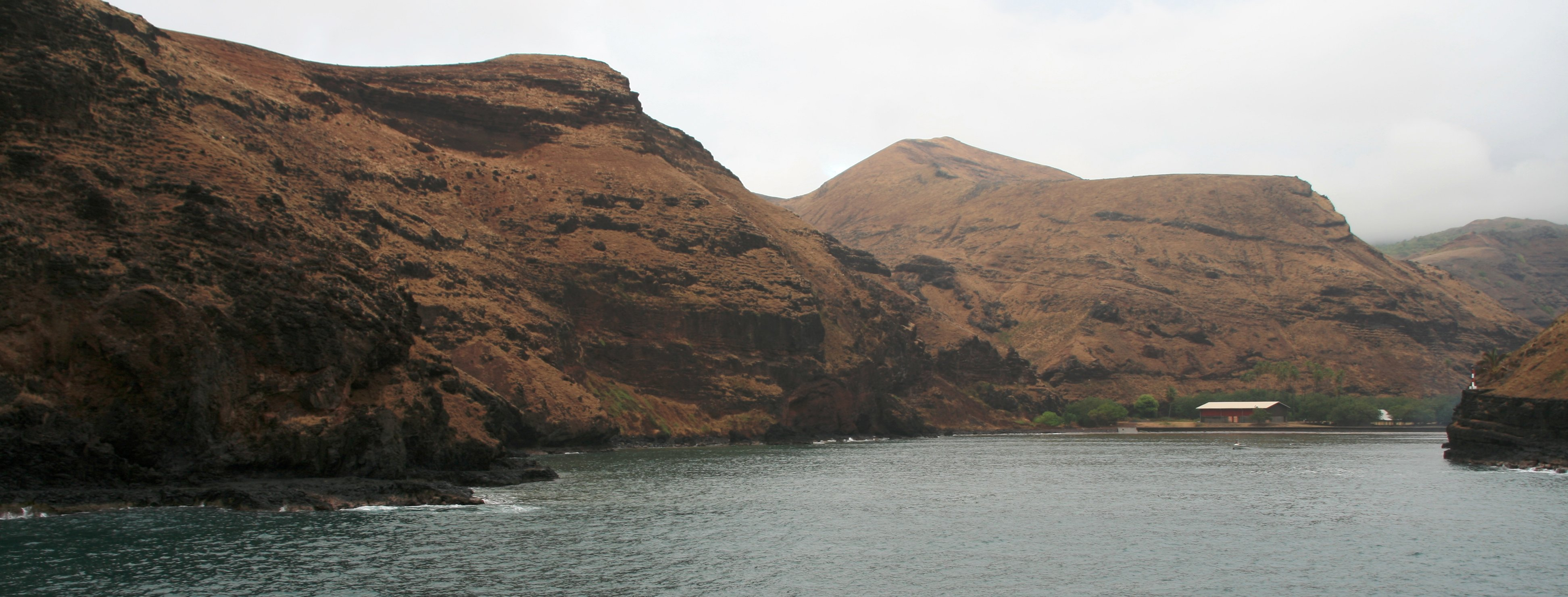 The Baie Invisible ("Invisible Bay") of Vaipaee, island of Ua Huka, Marquesas Islands, French Polynesia.